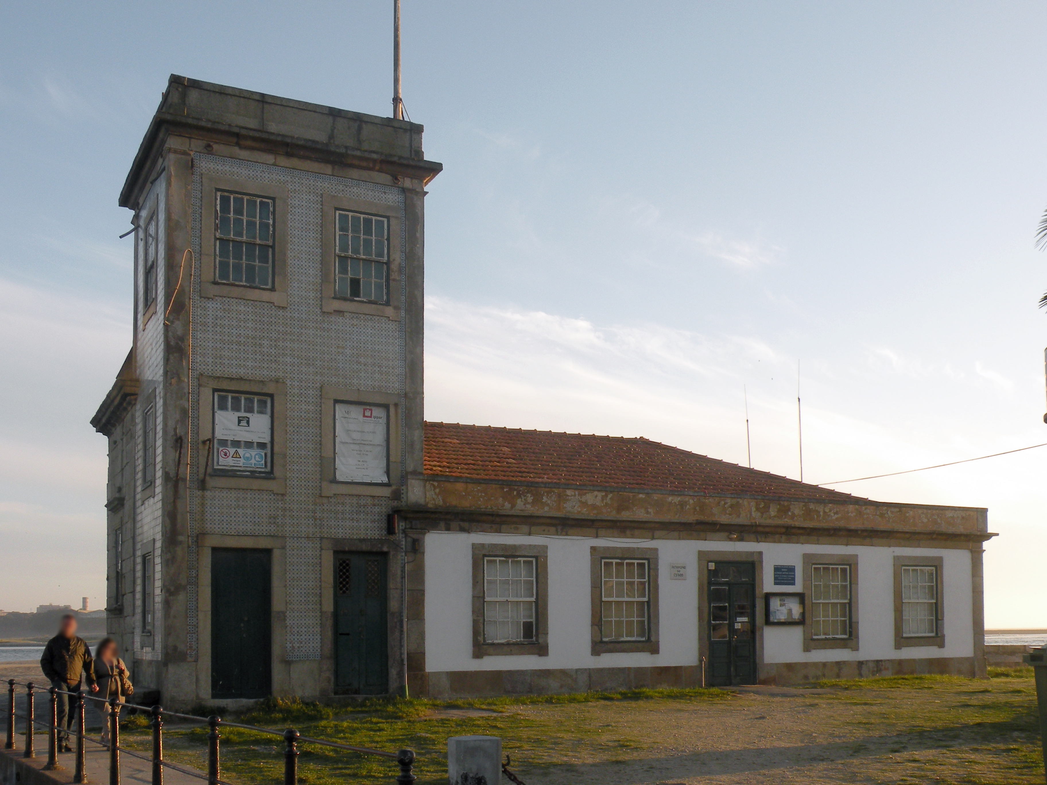 Telegraph tower, and Customs police house in in the Marégrafo quay, Cantareira, freguesia da Foz do Douro, Oporto, Portugal.